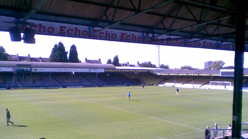 View of the West Stand and North Stand